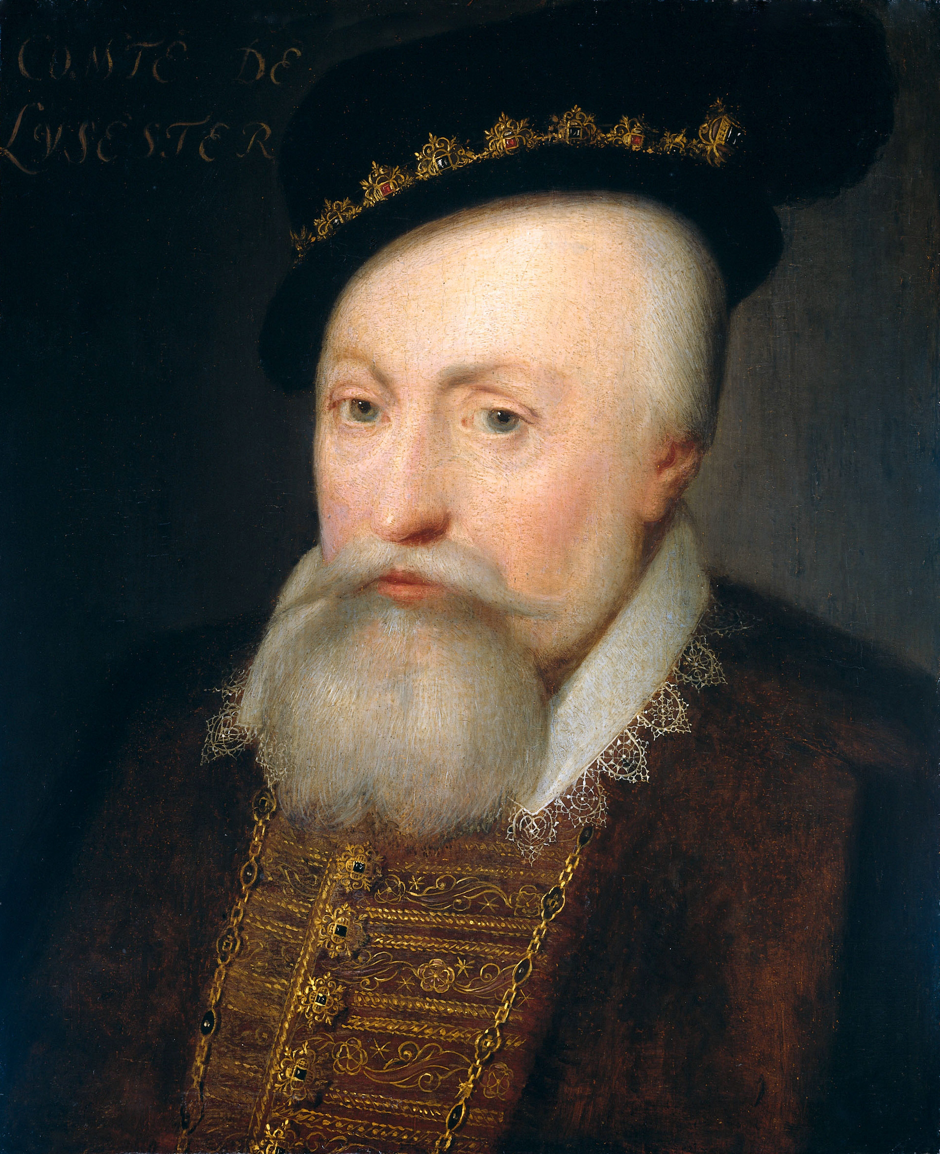 Portrait of Robert Dudley (1532–1588), 1st Earl of Leicester. Part of the Leeuwarden series, a series of portraits of military officials from the Eighty Years' War as well as members of the House of Orange-Nassau, first documented in 1633 in the Stadhouderlijk Hof (Stadholder's Court) in Leeuwarden (see Object history).